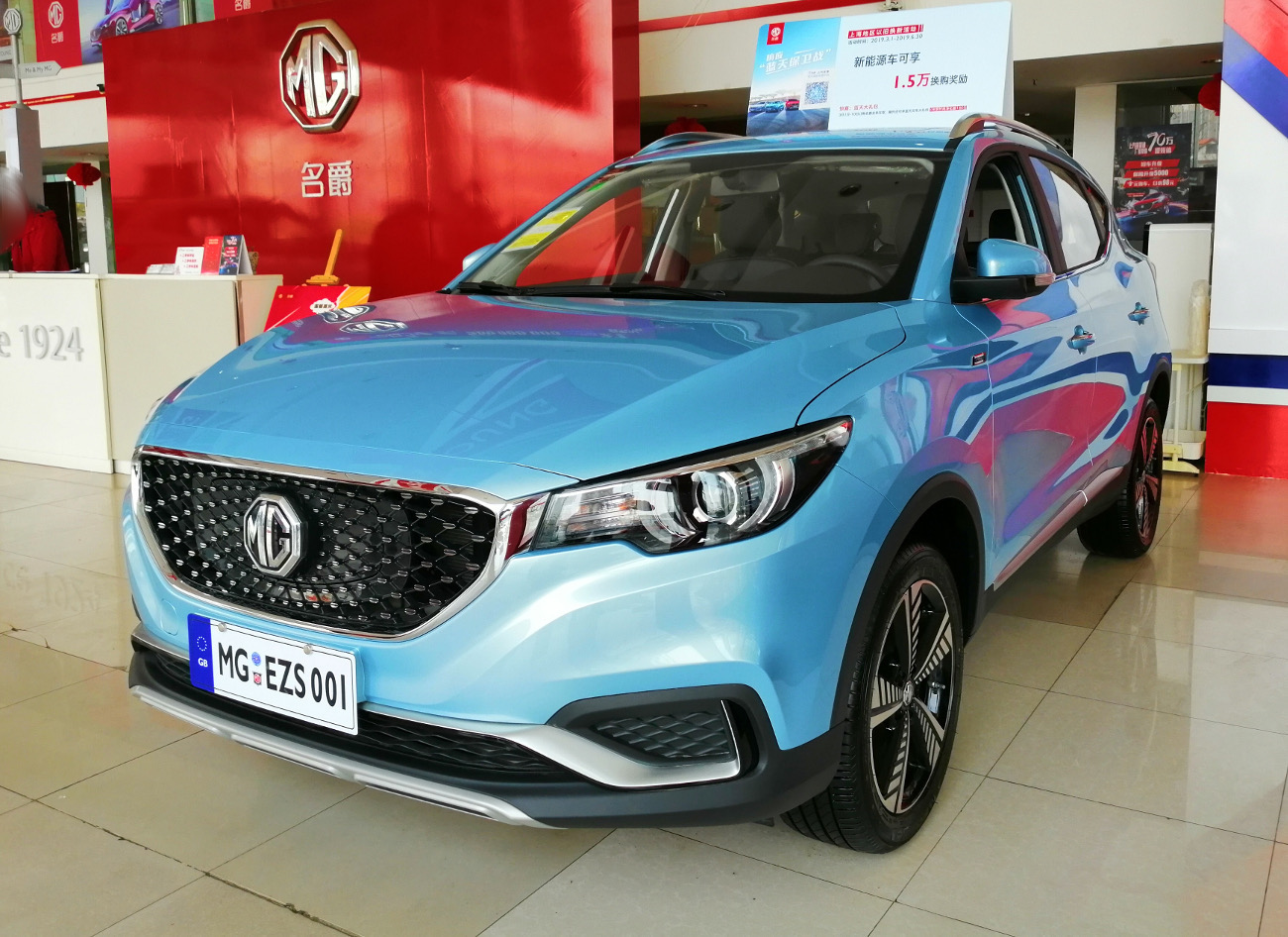 MG EZS photographed in Shanghai, China.